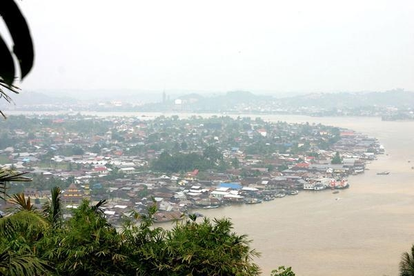 Landscape of Samarinda Seberang Subdistrict, Samarinda, East Kalimantan, Indonesia